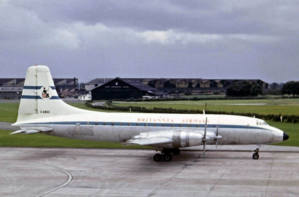 Britannia Airways Bristol Britannia 102 G-ANBO at Manchester (Ringway) Airport in 1965